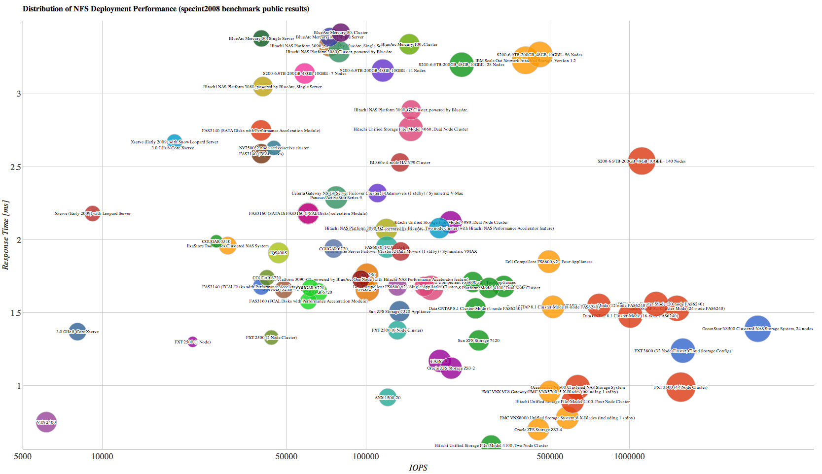 Performance graph of various NFS implementations according to data sourced on 22-November-2013 from the specint2008 NFS benchmark. Color represents relative RAM capacity (blue is less, red is more), circle size represents total storage pool capacity in TiB